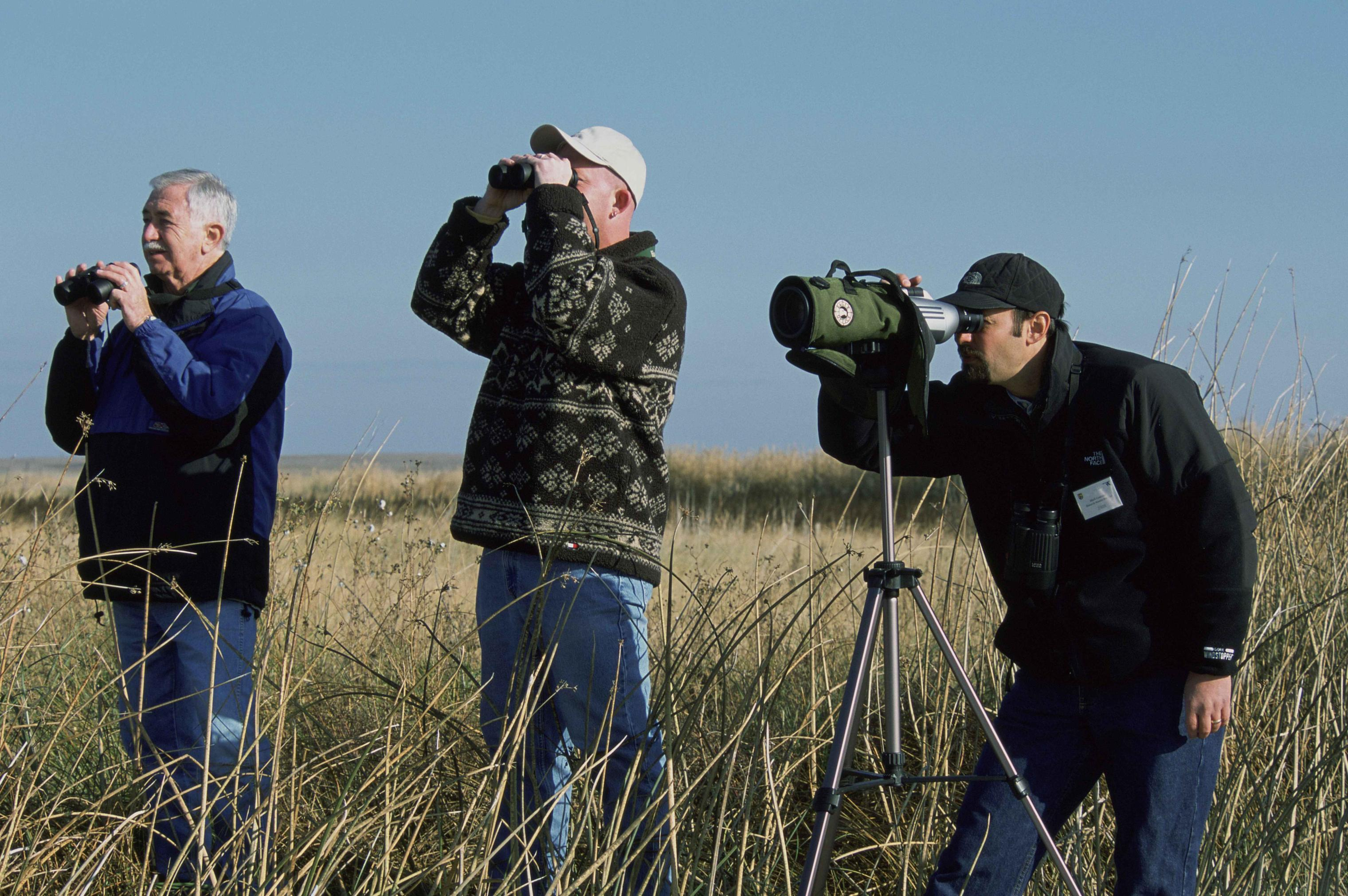 Image title: A group of men stand birdwatching Image from Public domain images website